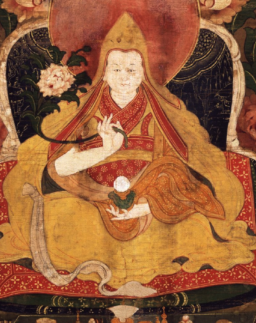 7th Dalai Lama, Kelzang Gyatso, b.1708 - d.1757